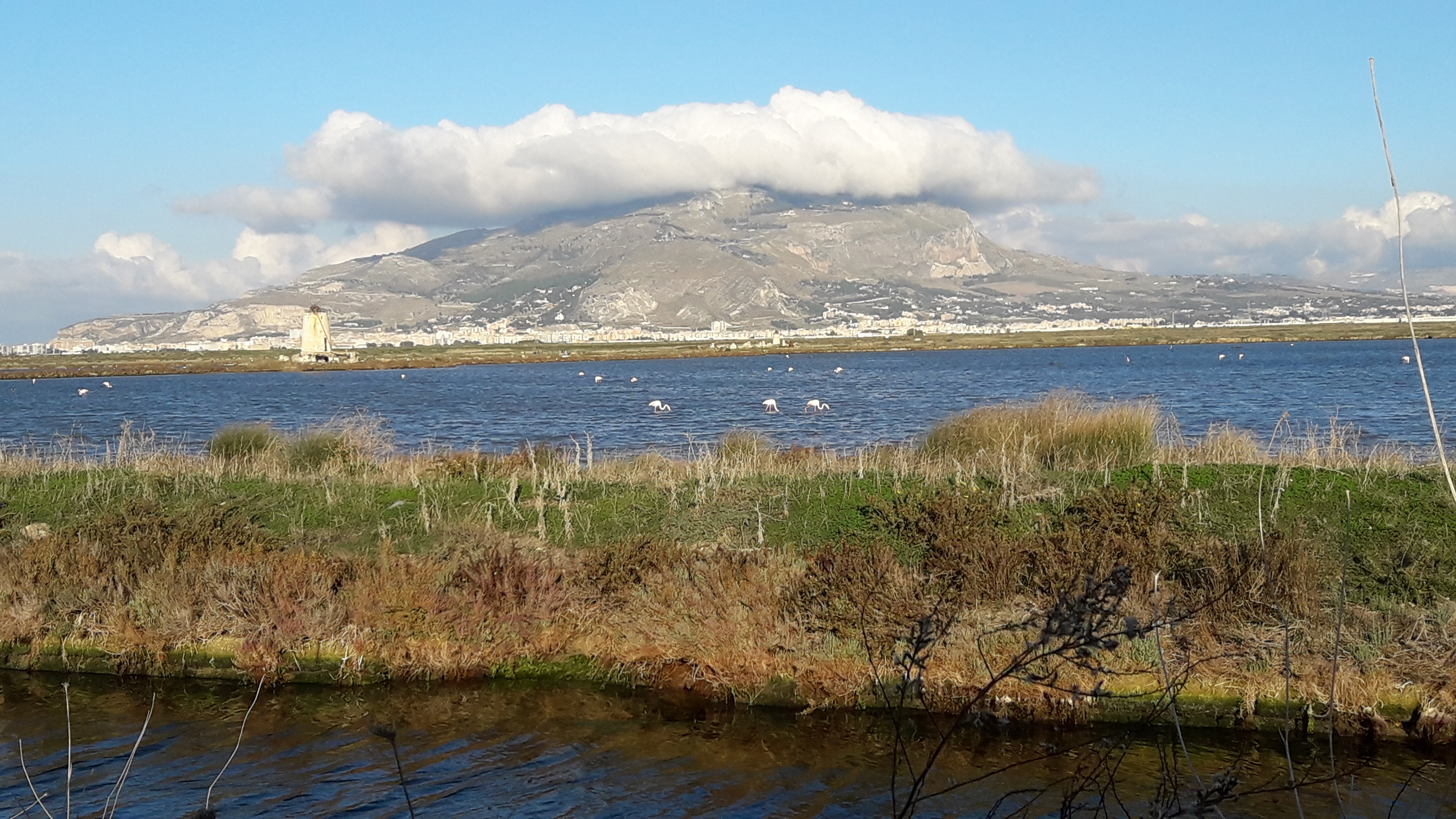 Birds, nature reserve of Trapani and Paceco salt ponds. Sicily